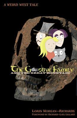 Cover of The Goodbye Family and the Great Mountain by Lorin Morgan-Richards, released in 2020.